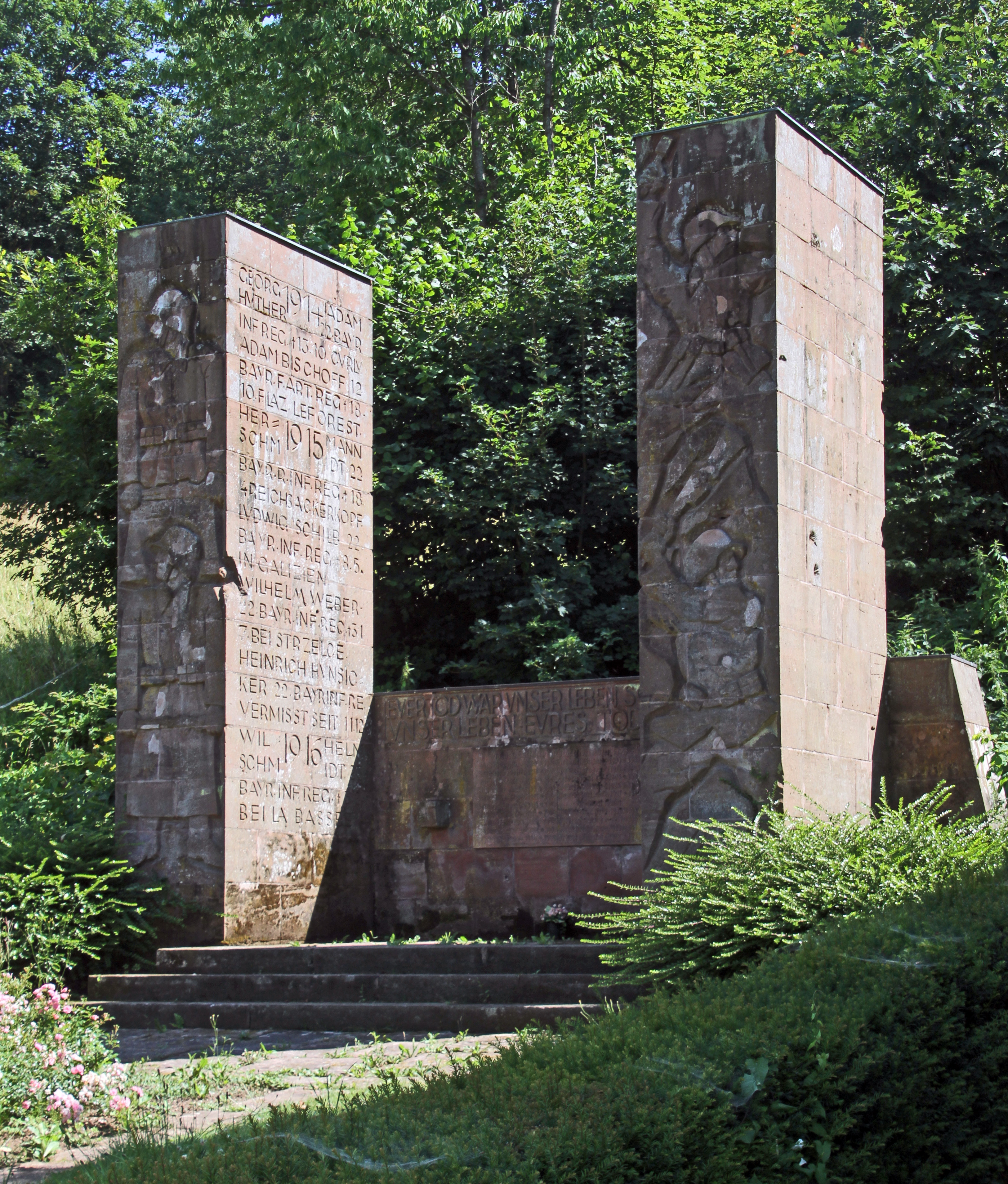 War memorial in Mauschbach